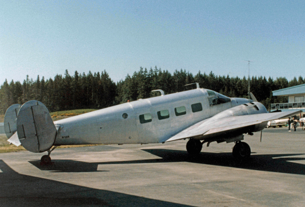 Beech E18S freighter at Friday Harbor airport Washington.